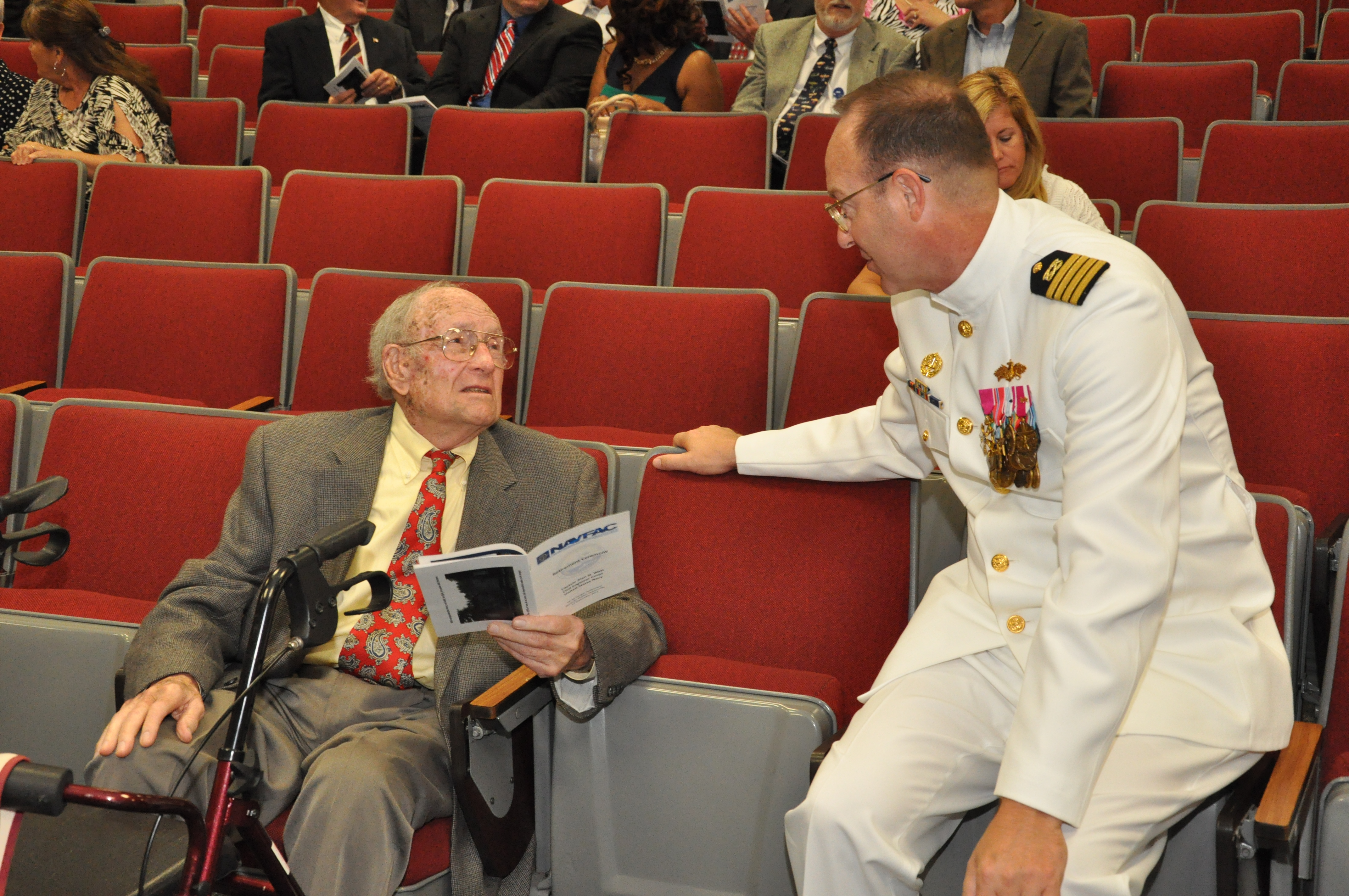 Skipper and Watt's father in law